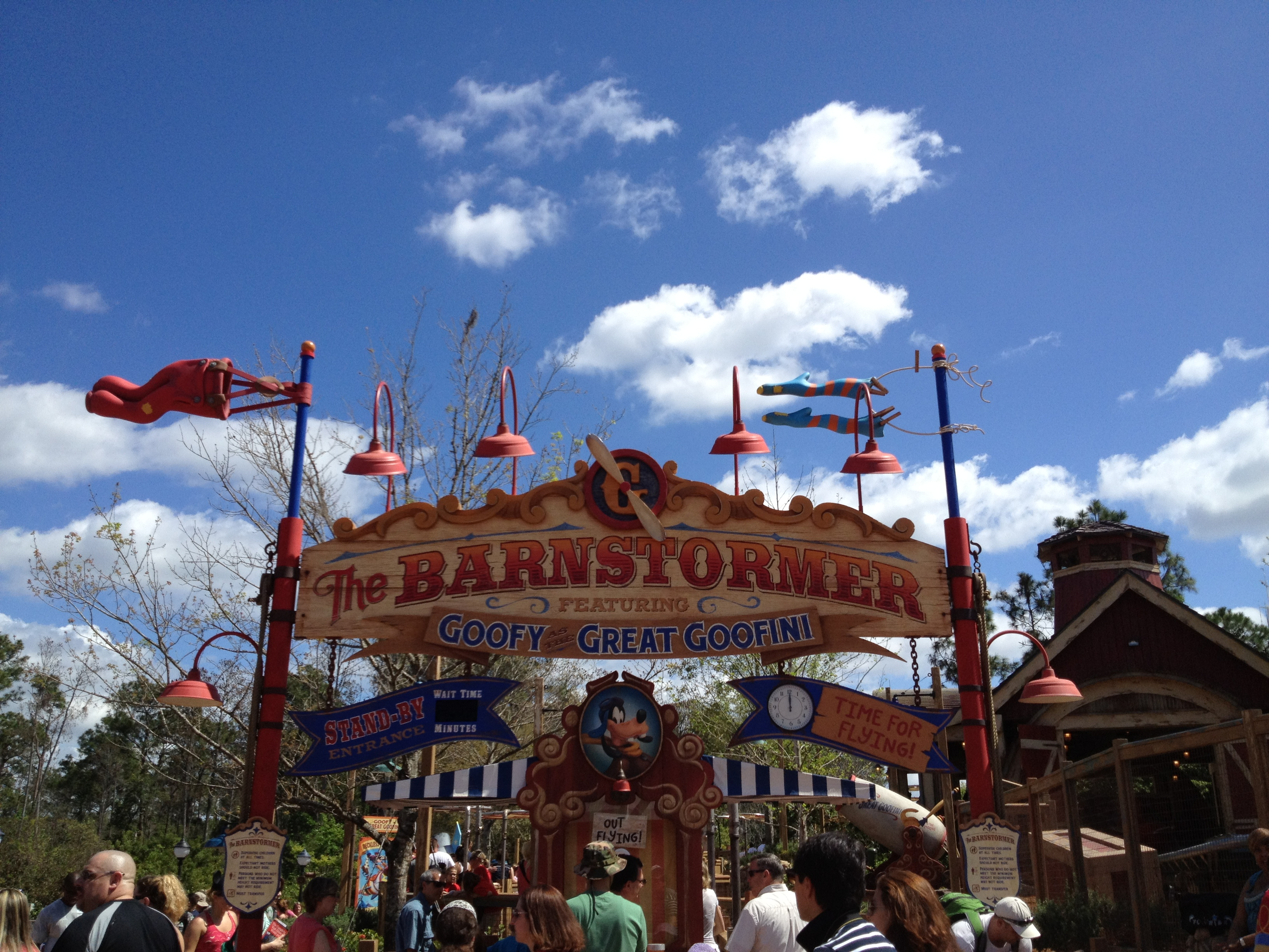 The Barnstormer, Storybook Circus, Magic Kingdom, Walt Disney World.